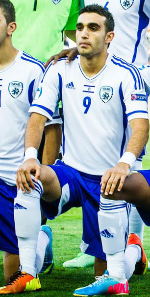 . Mohammes Kalibat, UEFA U21s Football championships in Israel between Israel & Norway Photo By David Katz